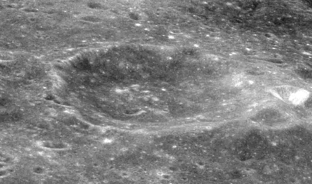 Oblique view of Ganskiy, on the far side of the moon, facing east.